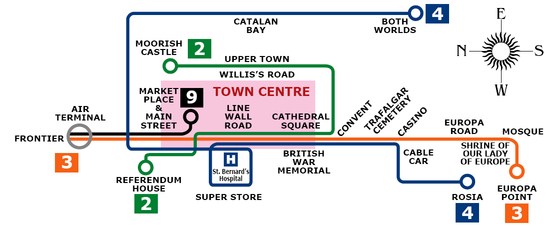 Bus routes of the Gibraltar Bus Company.